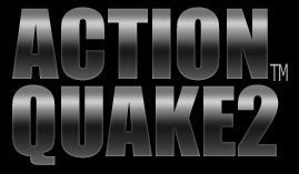 Action Quake 2 logo